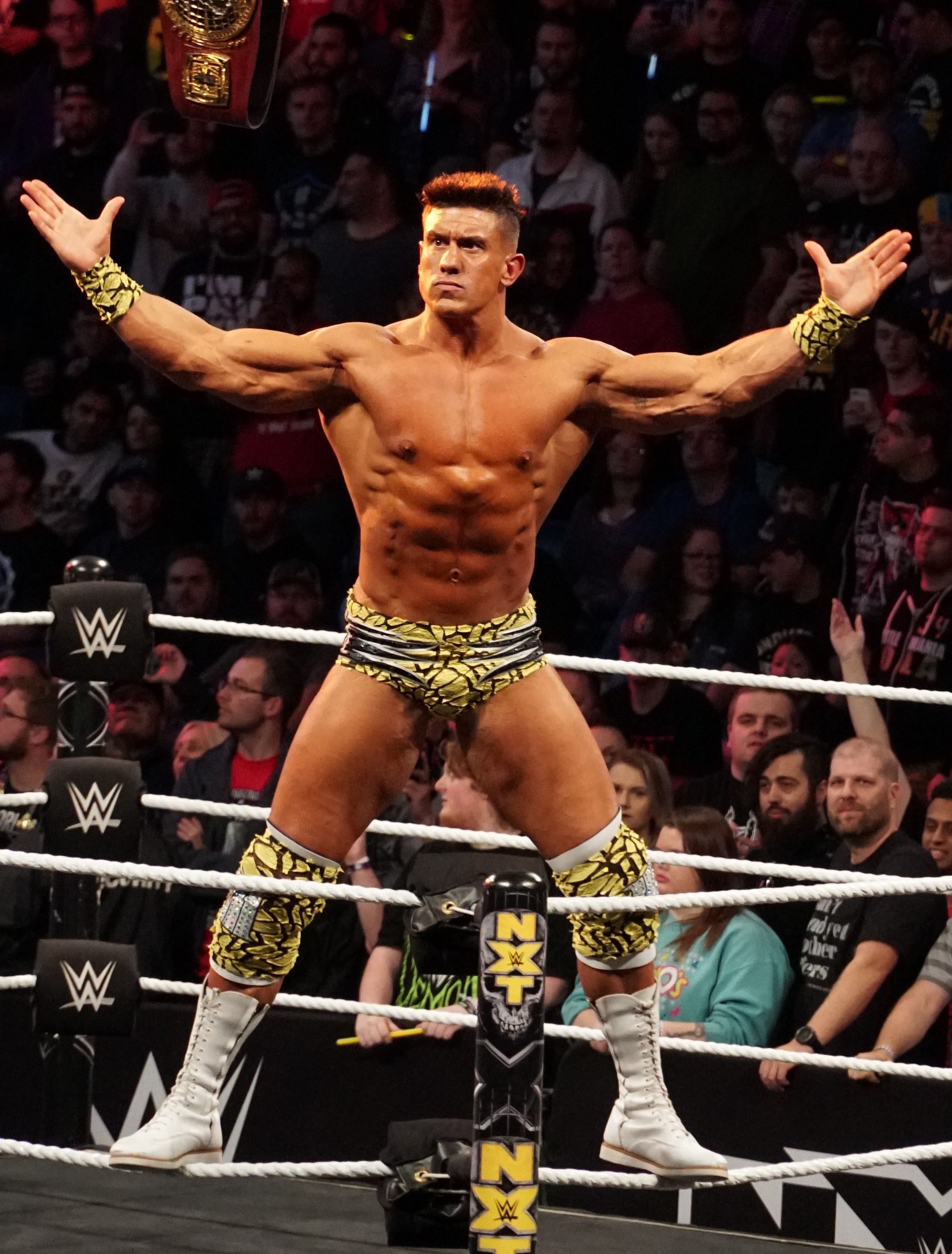 EC3 prior to the ladder match for the NXT North American championship at NXT Takeover:New Orleans in April 2018